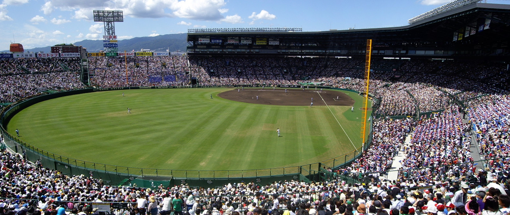 Summer Koshien 2009 Final